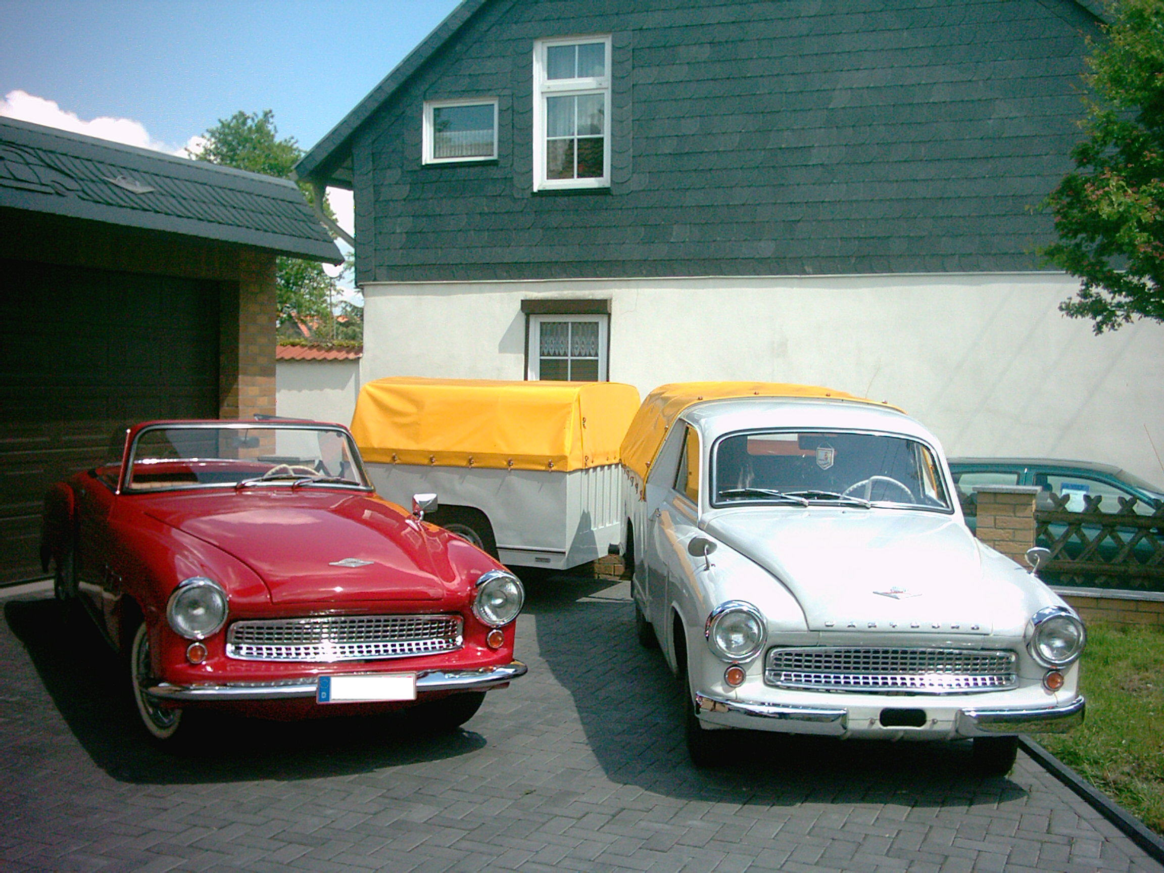 left: Wartburg 313 Convertible; right:Wartburg 311 pickup